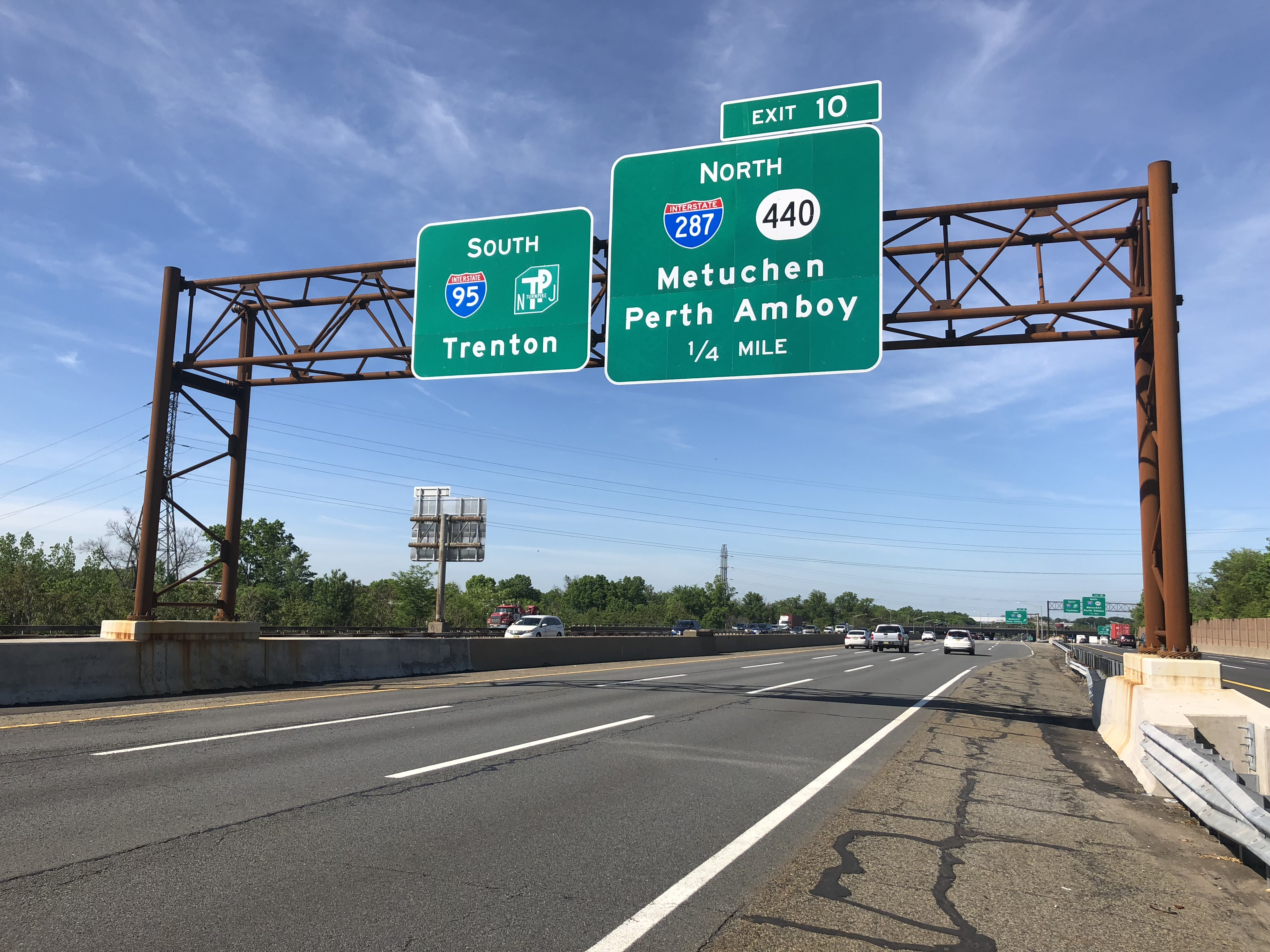 View south along Interstate 95 (New Jersey Turnpike) just north of Exit 10 (Interstate 287 NORTH, New Jersey State Route 440 NORTH, Metuchen, Perth Amboy) in Edison Township, Middlesex County, New Jersey